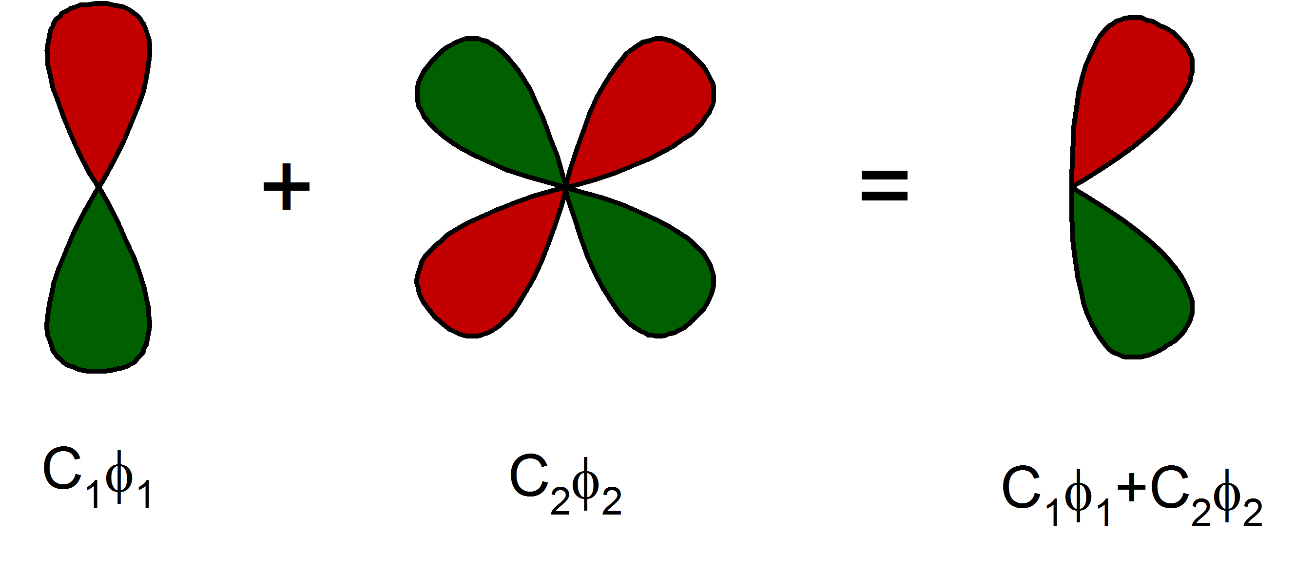 Application of a d polarization functions on a p orbital. Adapted from Errol G. Lewars Computational Chemistry: Introduction to the Theory and Applications of Molecular and Quantum Mechanics (1st ed.), Springer ISBN: 978-1402072857.